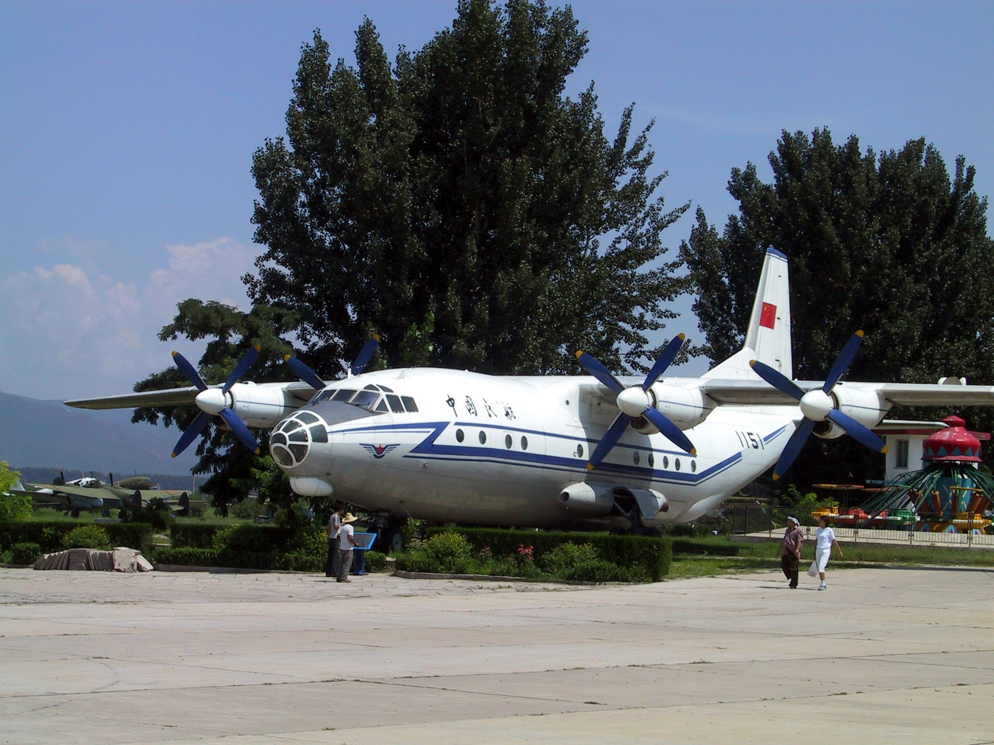 China Aviation Museum, 2002